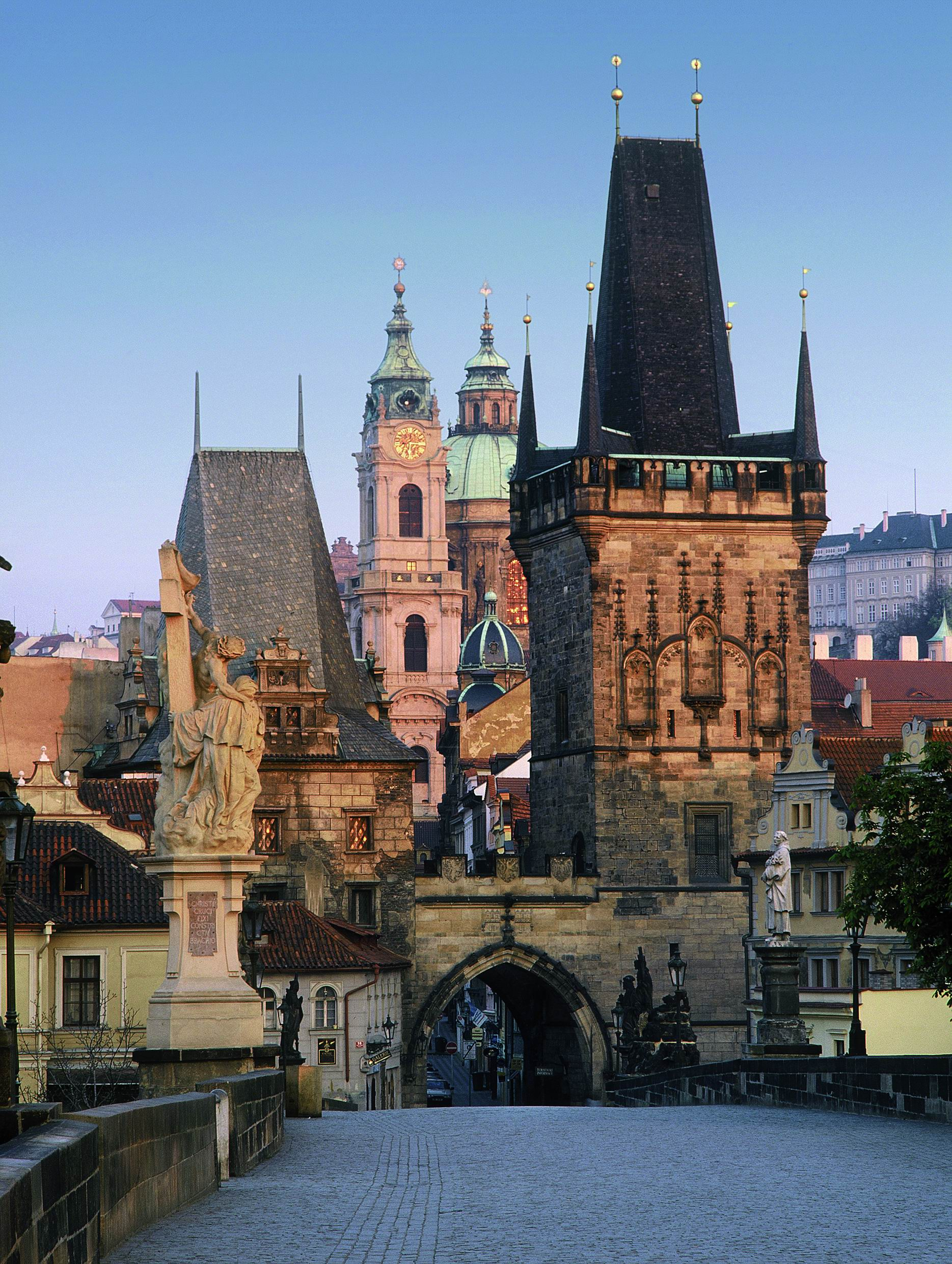 Lesser Quarter's Charles Bridge Tower